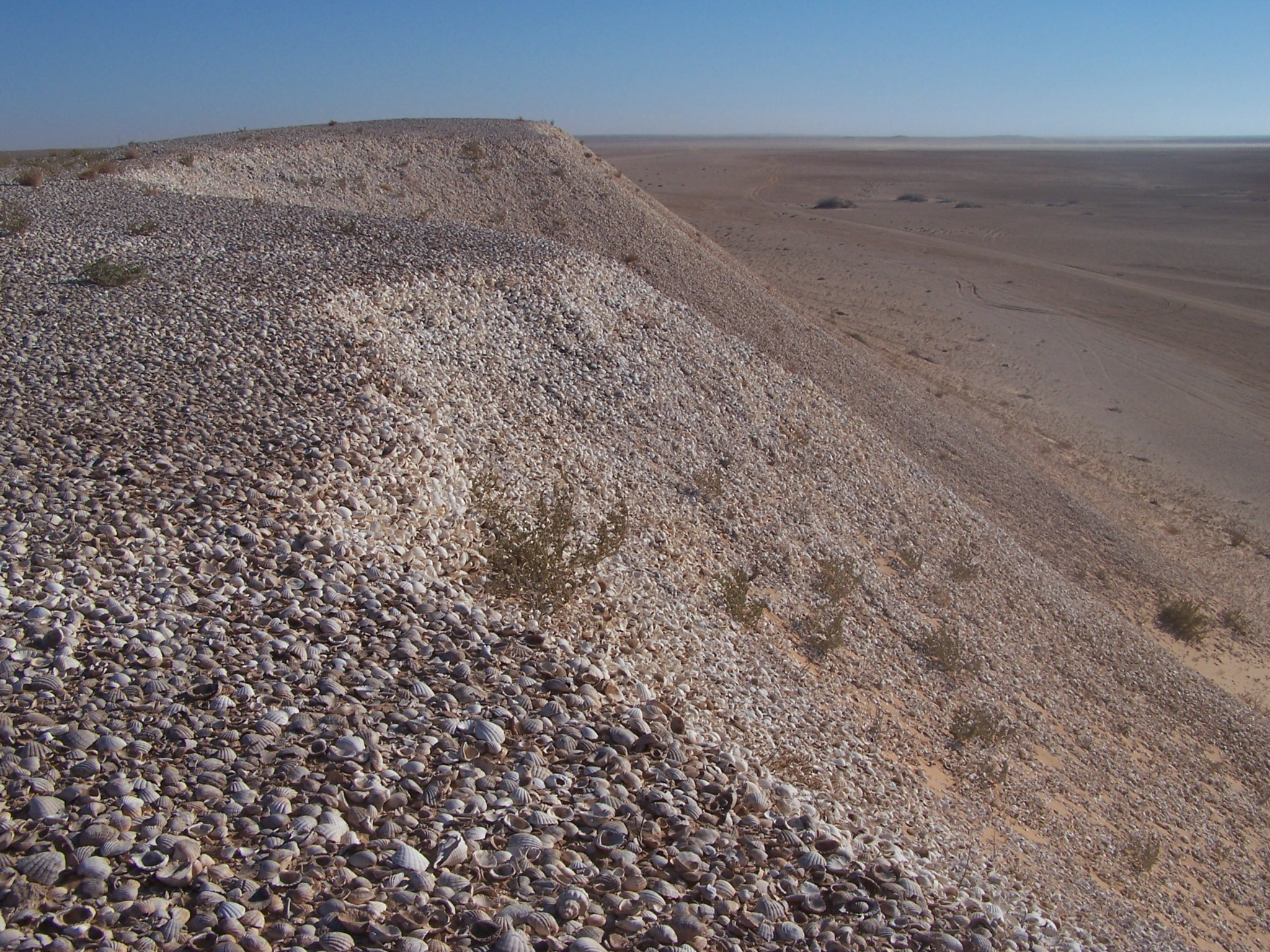 Huge shell heap at Bacn d'Arguin National Park, Mauritania